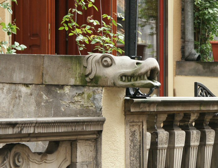 A gargoyle on an old house on Mariacka Street in Gdańsk